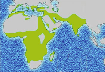 based on -not updated